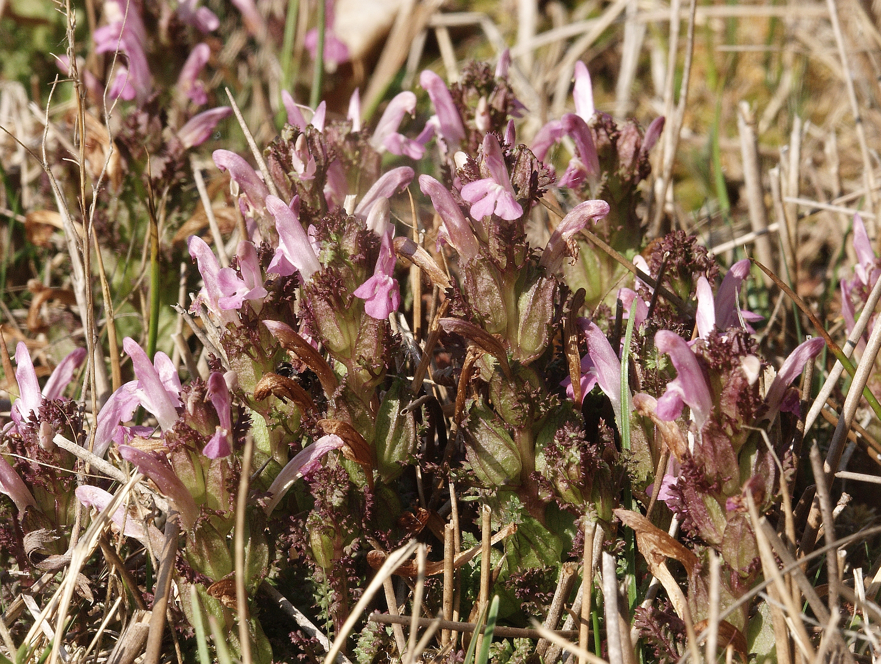 Pedicularis sylvatica, Virngrund, Germany